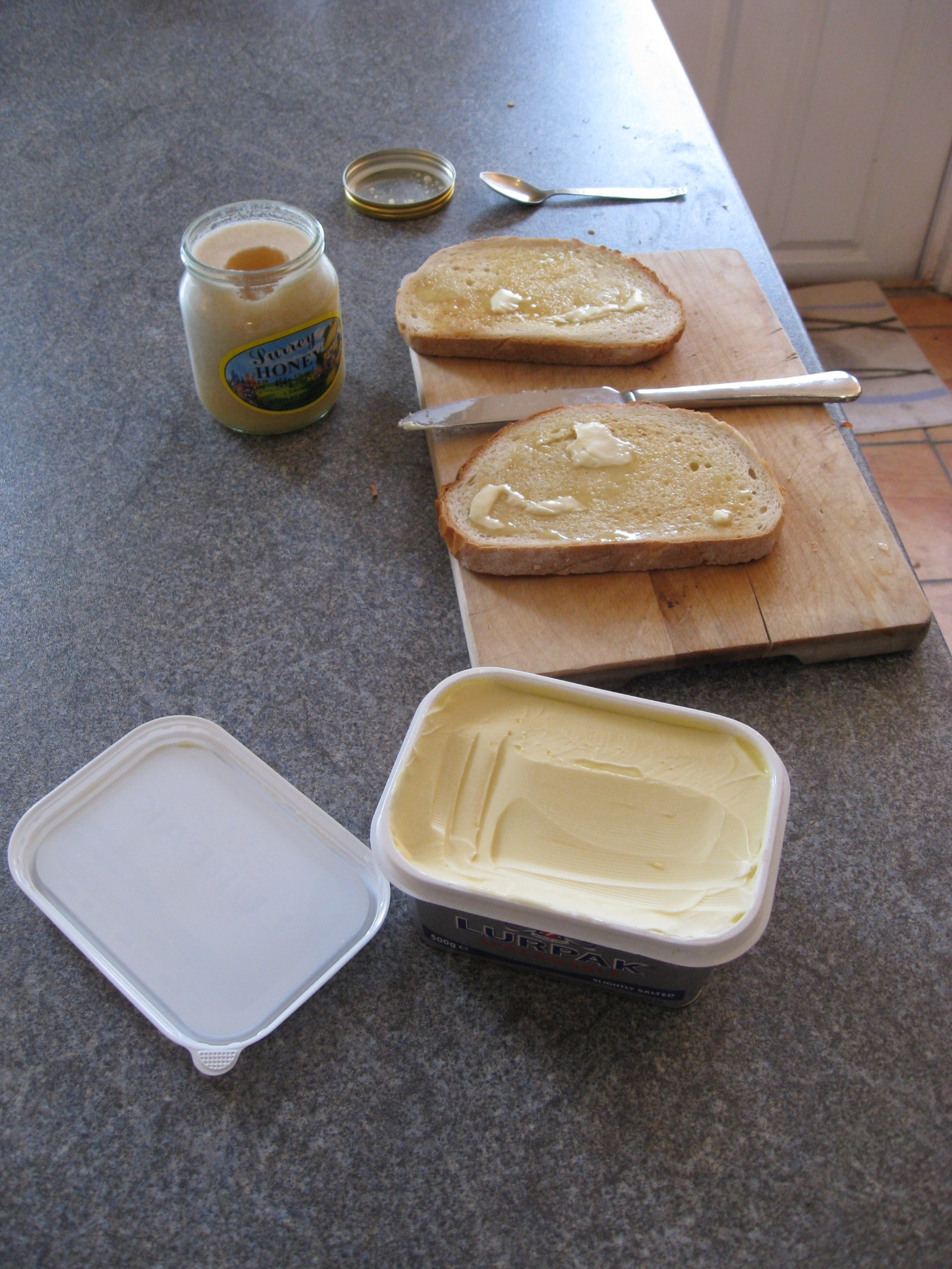 Breakfast - bread, margarine and honey.